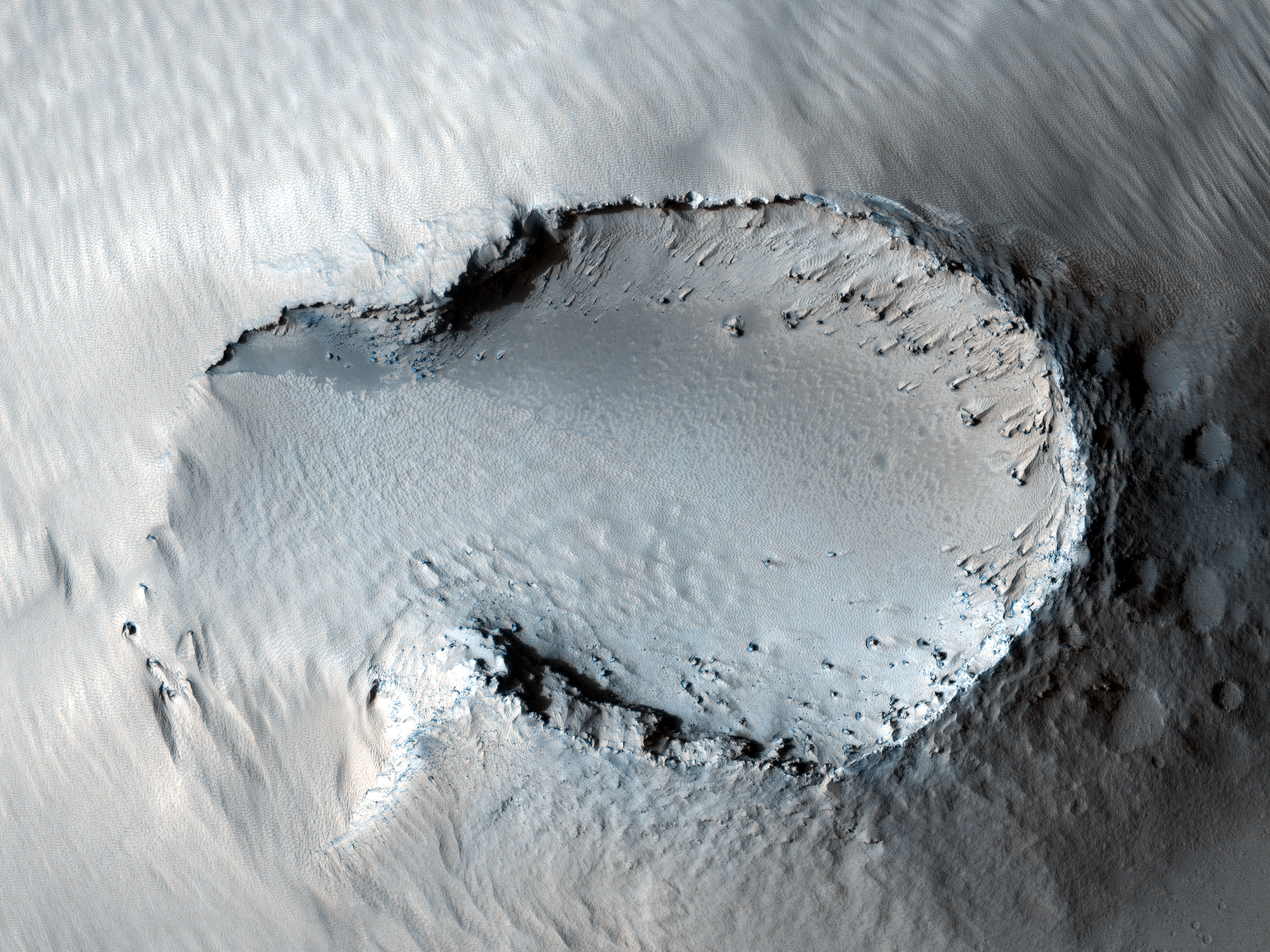 This image is centred on a small cone on the side of one of Mars' giant shield volcanoes. The cone shows some layers of hard rock but most of it is made of relatively soft material. This appears to be an example of a "cinder" cone composed of pieces of lava thrown into the air during a small volcanic eruption. Typically, such eruptions produce fountains of molten lava. Most of the lava would have cooled in this fountain, producing a loose pile of lava rocks. However, it appears that some pulses of the eruption allowed the lava to land without cooling much. These pieces were hot enough to weld together to make the hard layers we see today. The cone is 700 x 1100 meters in size, similar to many cinder cones on Earth. In other parts of the image, we see channels carved by lava. It is sometimes difficult to tell if a channel was formed by flowing water or lava; in this case, it is possible to see that lava flows feed out of these channels.